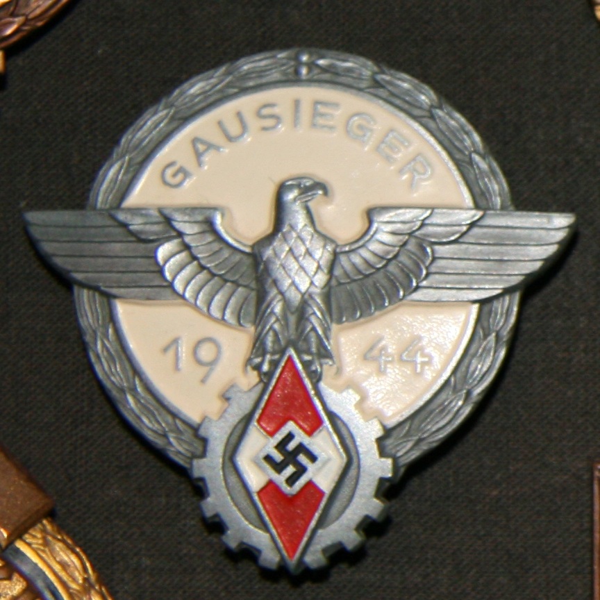 Badge, Gausieger 1944 circular form; oak leaves around edge; legend around inner edge; spread winged eagle across centre settled on cog encircling white and red diamond shape with swastika at centre; pin fastening